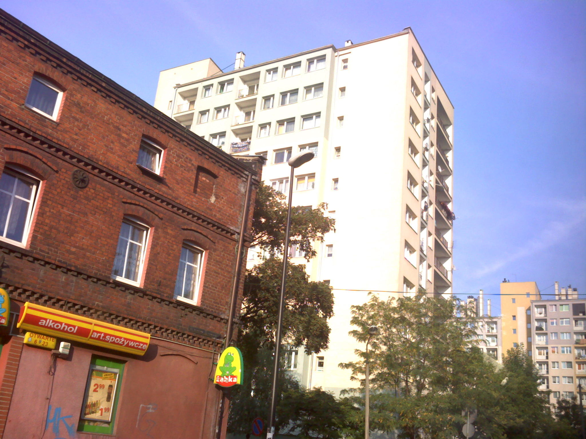 Ruda Slaska Mickiewicz's housing estate